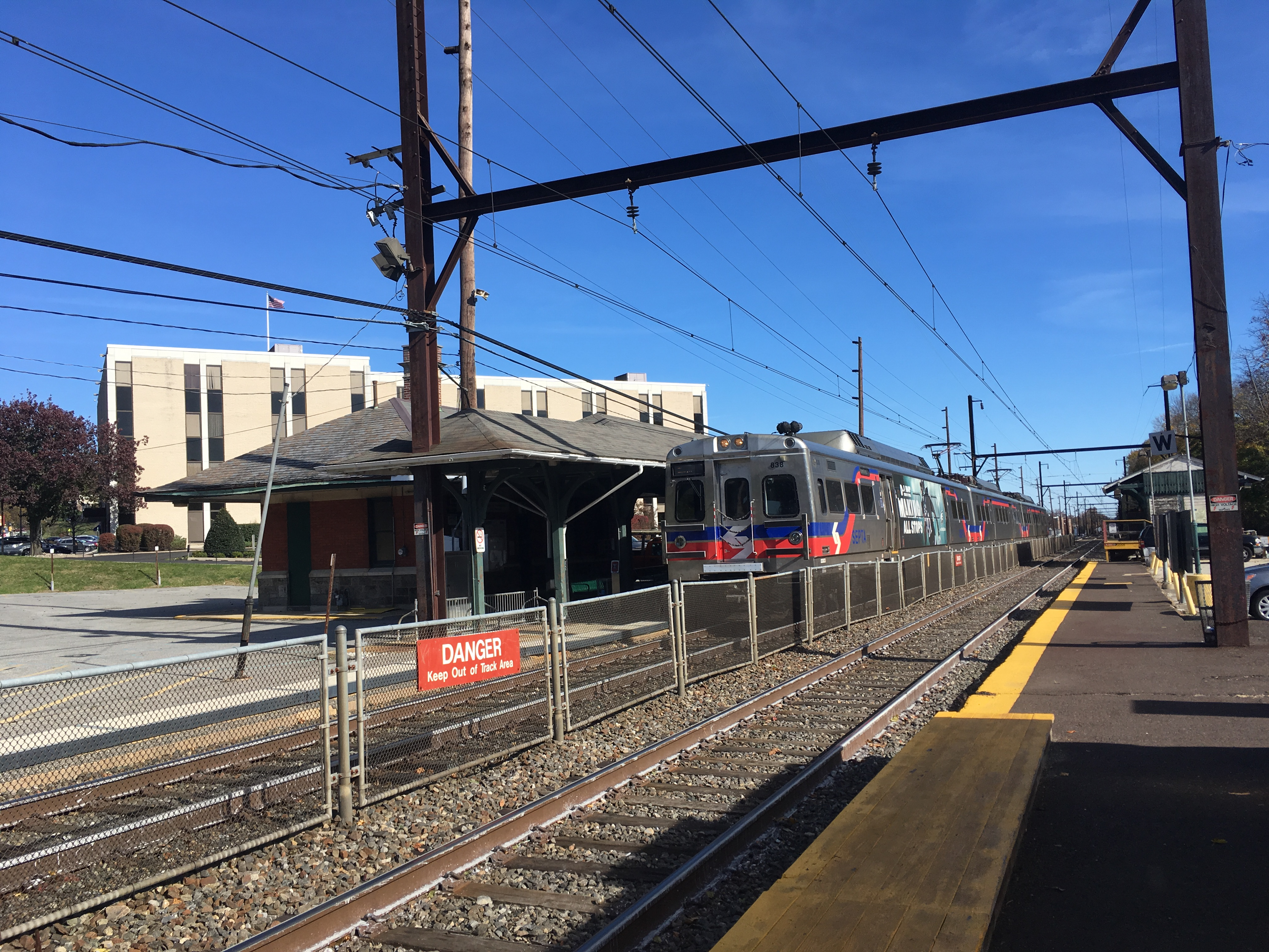 A SEPTA West Trenton Line train bound for Center City Philadelphia stops at the Noble Station in Abington Township, Pennsylvania.